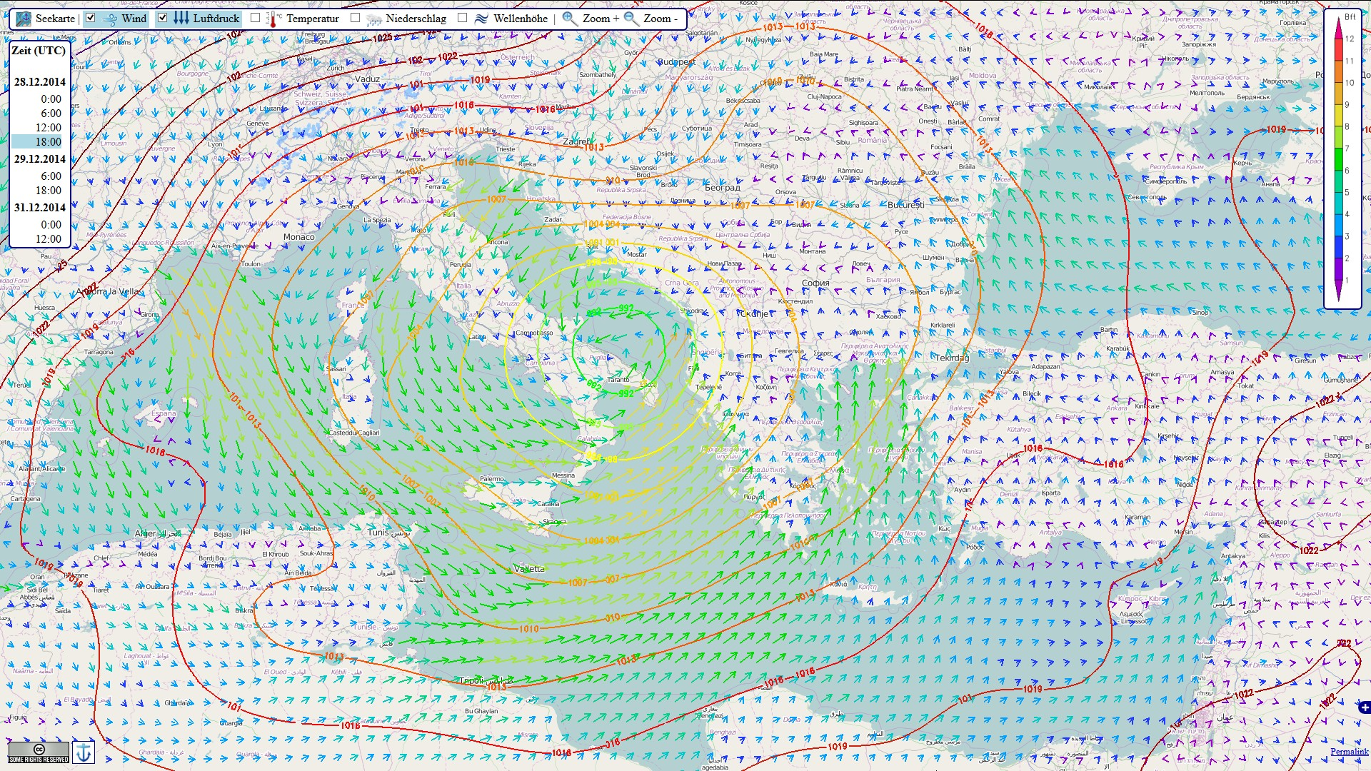 Weather chart Fire disaster of ferry "Norman Atlantic" 28.12.2014